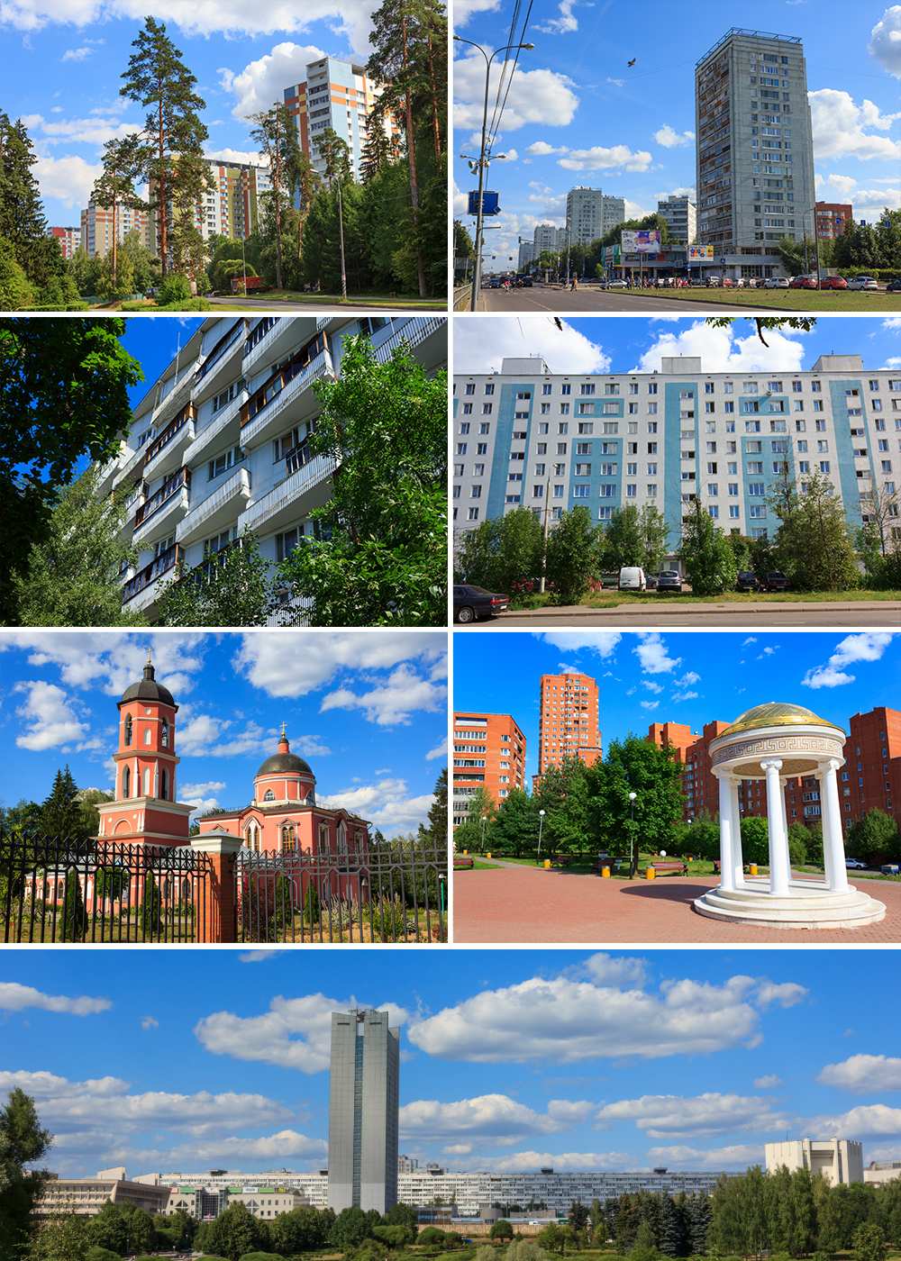 Zelenograd collage. All pictures were made in July 2014.